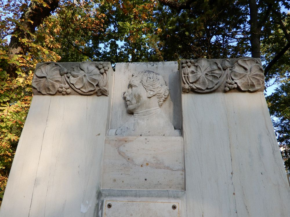 Wilhelm Müller memorial in Františkovy Lázně; erected by Adolph Mayerl 1910, destroyed 19̟45, renewed 2013